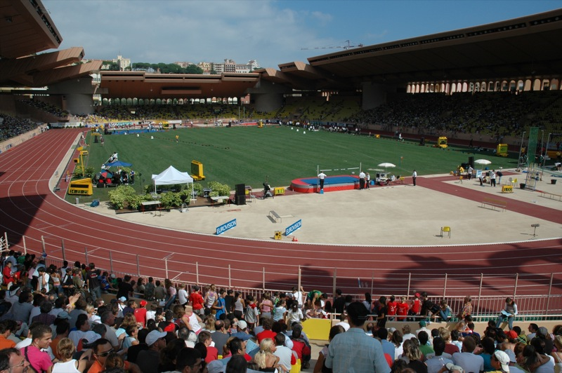 Herculis at Stade Louis II on 10 September 2005.